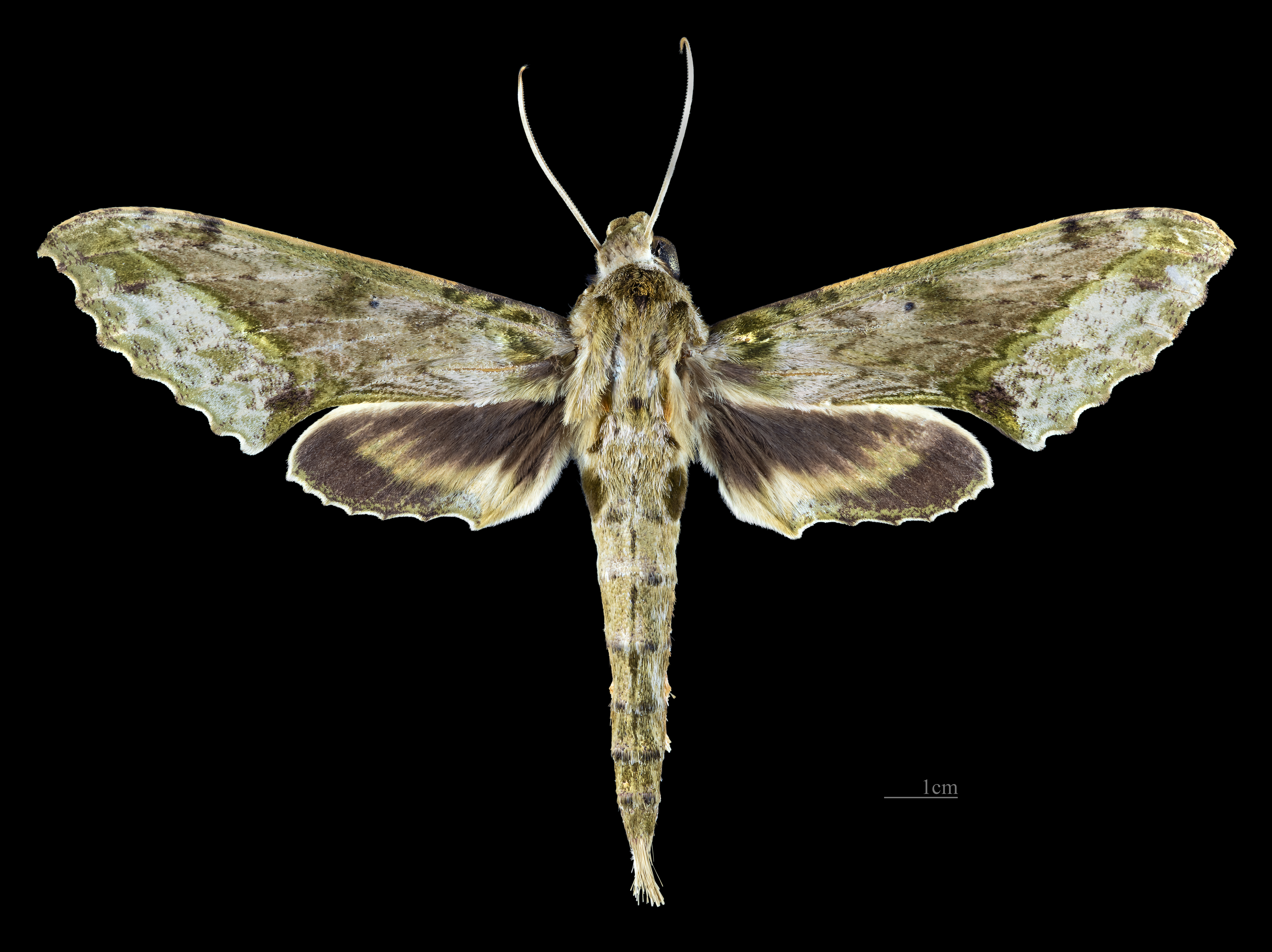 Xylophanes undata - Dorsal side Collection of the Mathematician Laurent Schwartz